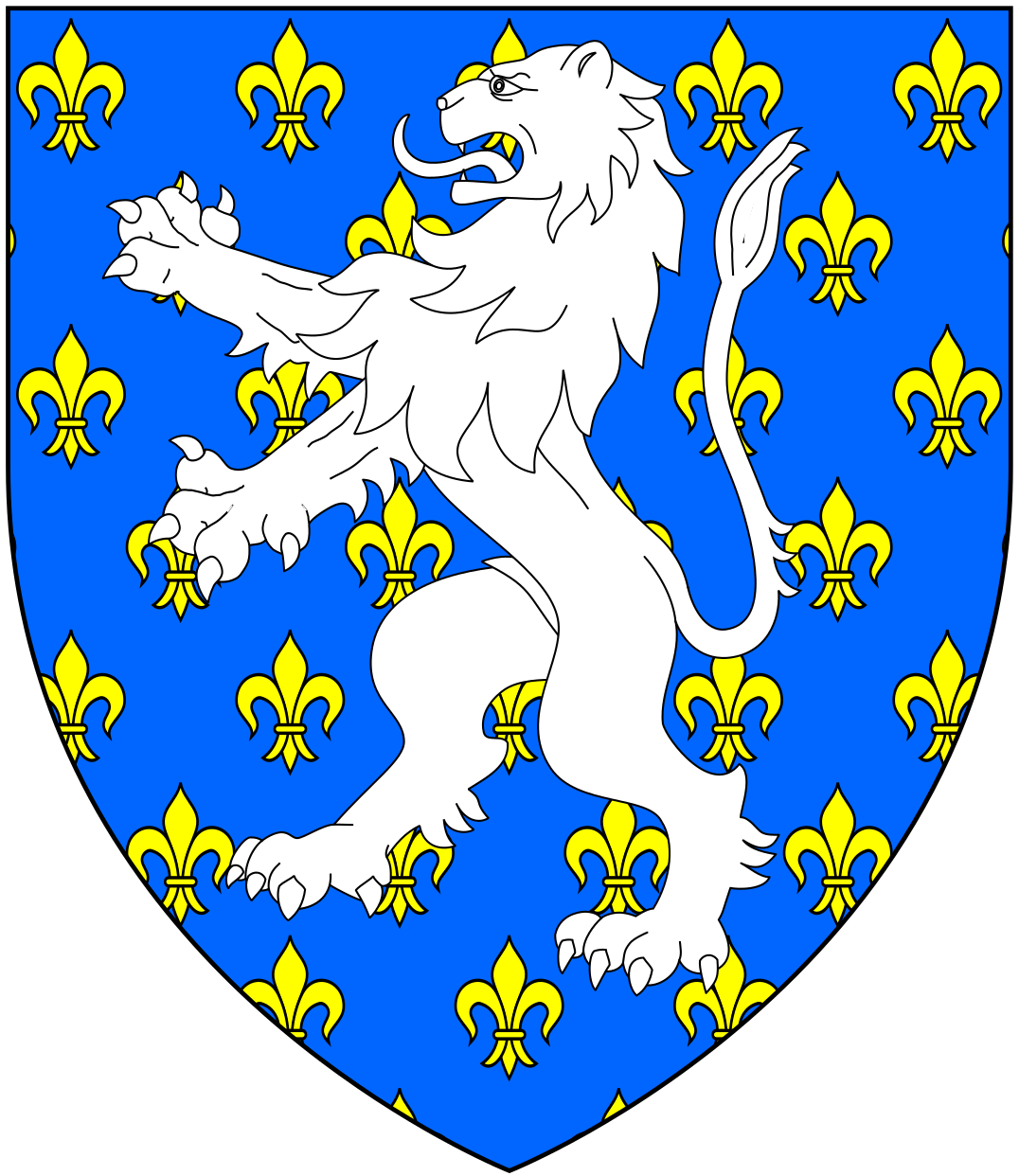 Arms of Pole of Shute, Devon: Azure semée of fleur-de-lys or, a lion rampant argent (Source: Pole, Sir William (d.1635), Collections Towards a Description of the County of Devon, Sir John-William de la Pole (ed.), London, 1791, p.497)